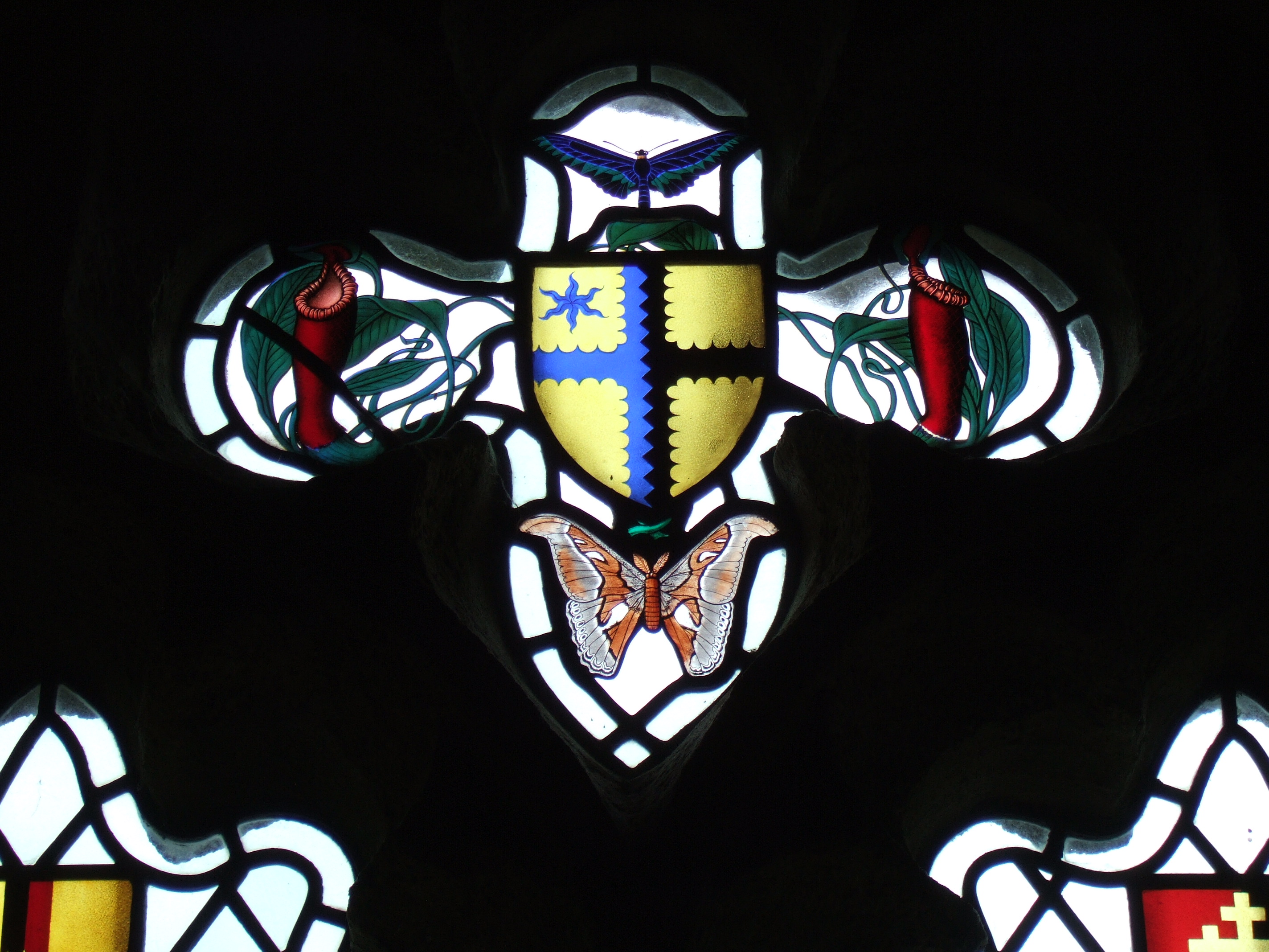 Blazon: Or, a cross engrailed per pale azure and sable bearing in the first quarter an estoile of the second seemingly for Brooke, Rajah of Sarawak (three of whom are buried in the churchyard). Arms blazoned differently in Burke's Genealogical and Heraldic History of the Landed Gentry, 15th Edition, ed. Pirie-Gordon, H., London, 1937, p.255 "Brooke of Sarawak": Or, a cross per pale sable and gules bearing in the first quarter an estoile azure. The former national flag of Sarawak is a variant of the Brooke arms. Similar arms borne by Viscount Alanbrooke & Viscount Brookeborough, etc. The upper part of a memorial window at St Leonard's Church, Sheepstor, Devon, England showing Nepenthes rajah. The window is a memorial to those from Sarawak who died in World War II. The three Brooke rajahs are buried in the churchyard. Thc church guide describes the plant as "a typical native pitcher plant - Naperthes Rajah" [sic].